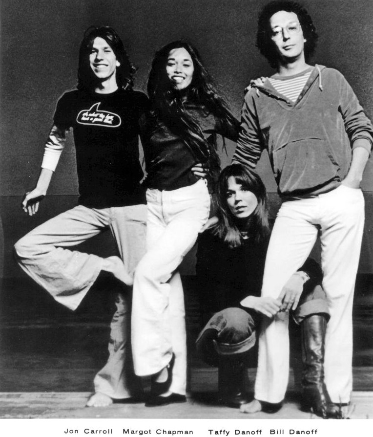 Photo of the musical group Starland Vocal Band.